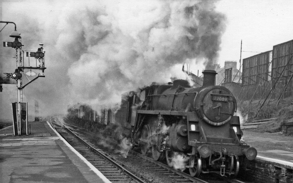 Up goods train at Motherwell. View northward, towards Glasgow Central and connections; ex-Caledonian West Coast main line from Glasgow Central to Carstairs, Carlisle and the South. The locomotive is BR Standard 3MT 2-6-0 No. 77009 - withdrawn a month later.